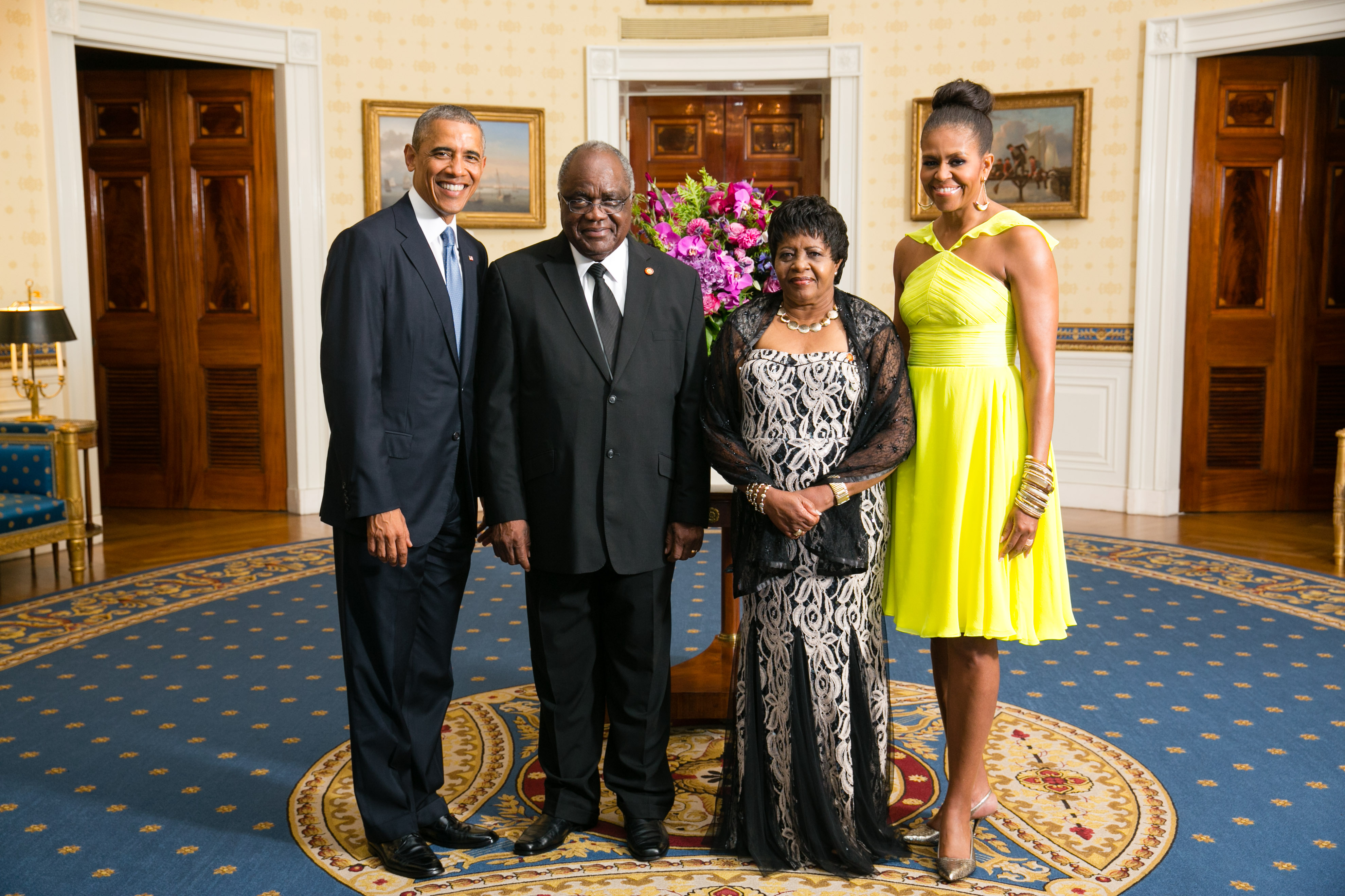 President Barack Obama and First Lady Michelle Obama greet His Excellency Hifikepunye Pohamba, President of the Republic of Namibia and Ms. Penehupifo Pohamba, in the Blue Room during a U.S.-Africa Leaders Summit dinner at the White House, Aug. 5, 2014. [Official White House Photo by Amanda Lucidon] This official White House photograph is in the public domain from a copyright perspective, so while restrictions such as personality or privacy rights may apply, in general, manipulations are allowed.